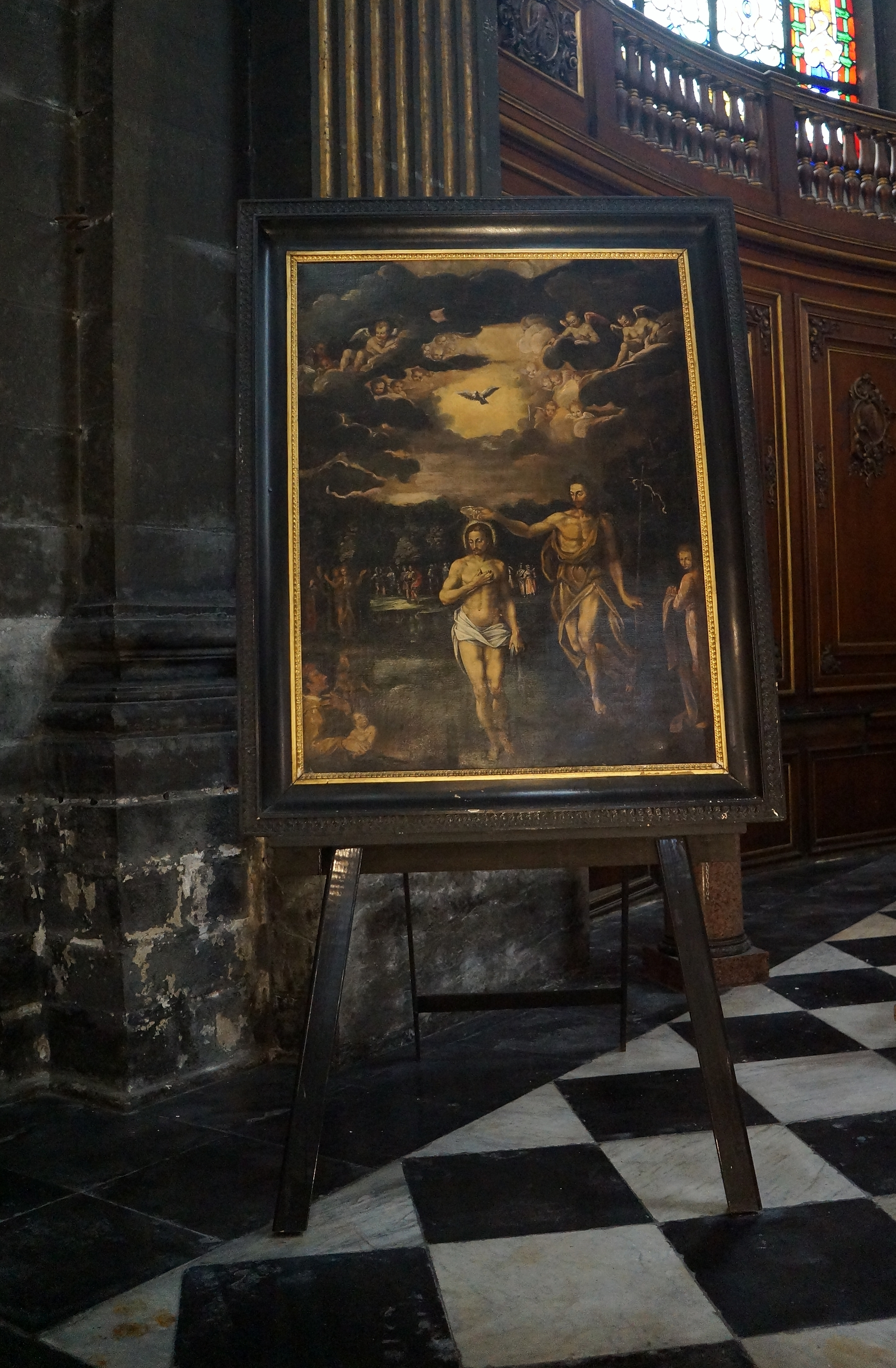 Painting of the baptism of Jesus Christ in St. Stephen Church.- Lille